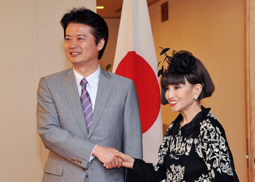 Tetsuko Kuroyanagi, Goodwill Ambassador of the United Nations Childrens' Fund, met Kōichirō Gemba, Minister for Foreign Affairs, at the Ministry of Foreign Affairs in Tōkyō Metropolis on July 5, 2012.